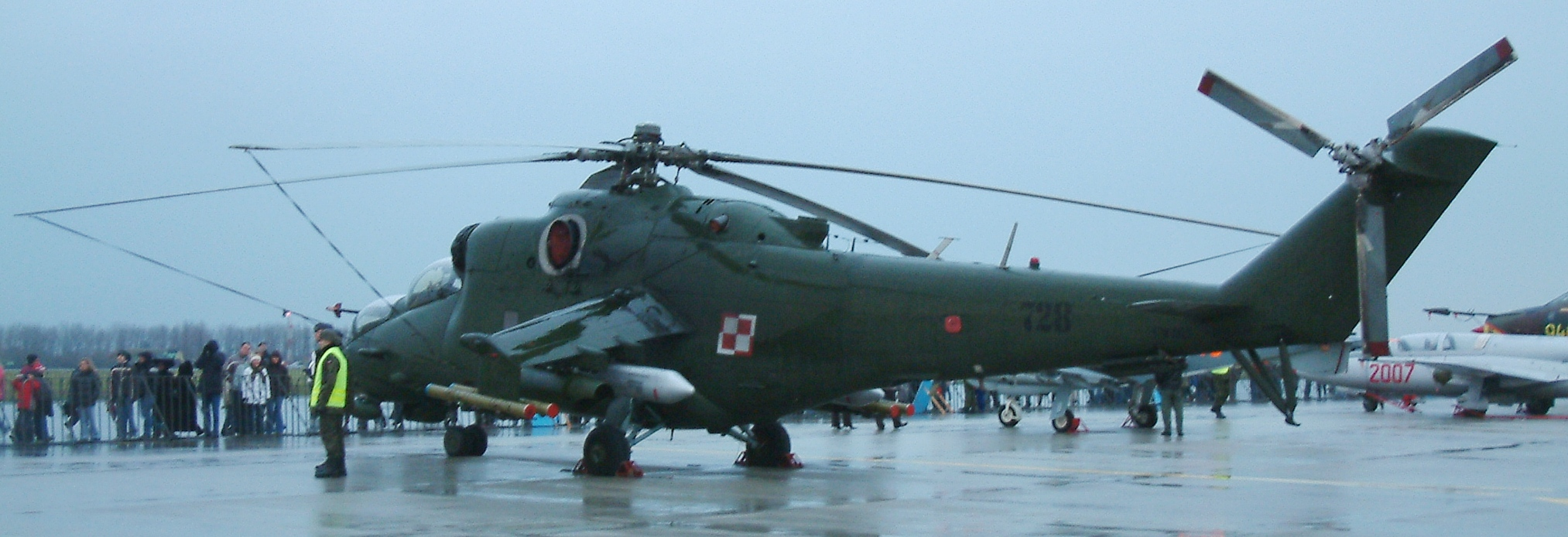 Mi-24W #728 of Polish Land Forces Aviation, 31st. Air Base Poznań-Krzesiny